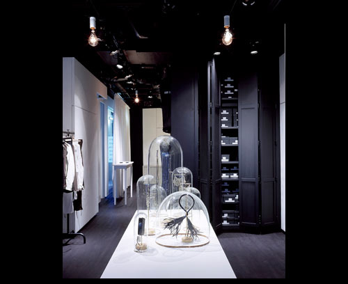 Ann Demeulemeester, flagship store in Omotesandō, Tokyo, Japan